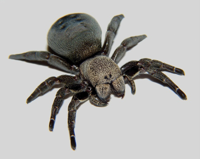 Eresus hermani female (Remete-hegy, Budapest, Hungary)